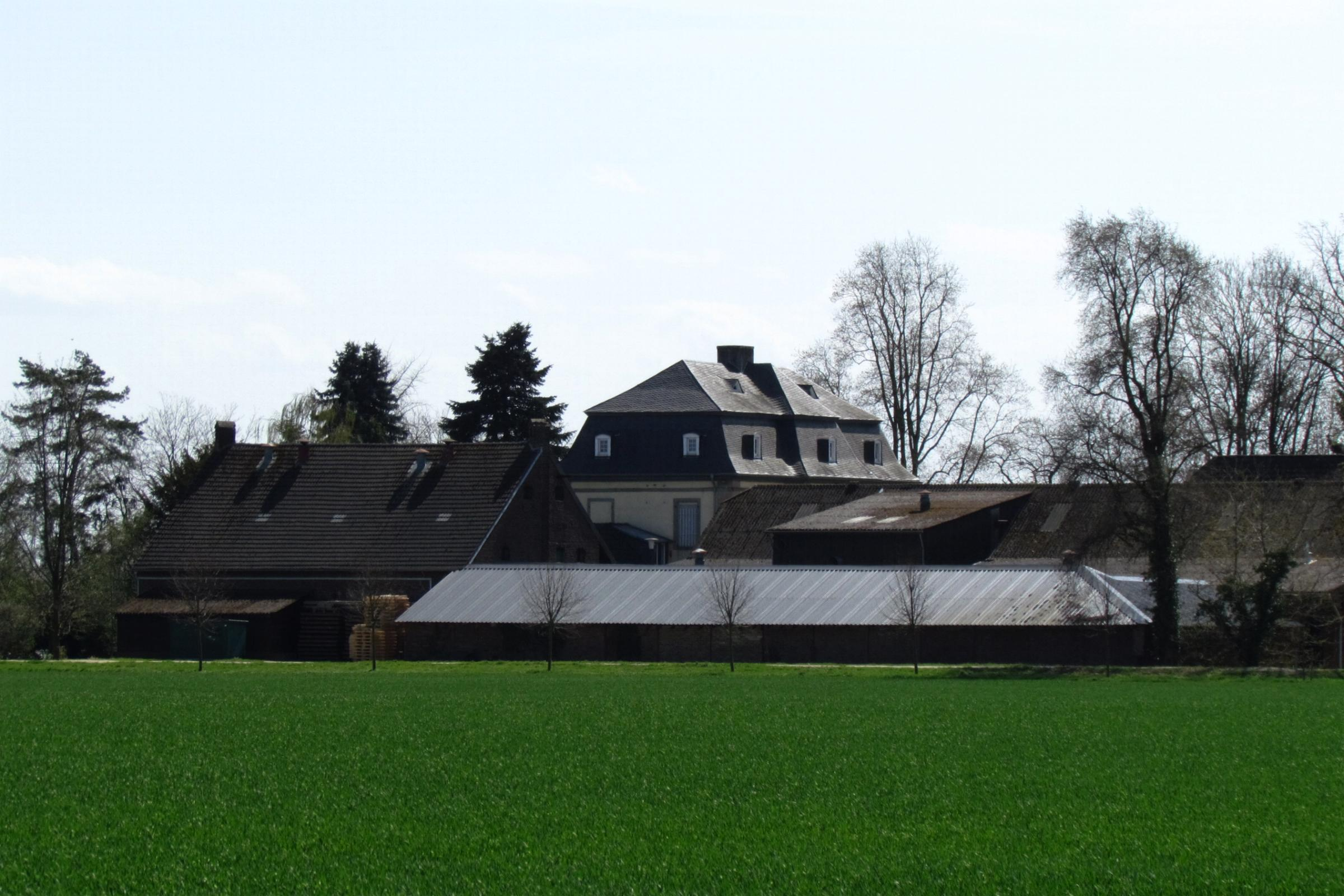 This is a photograph of an architectural monument.